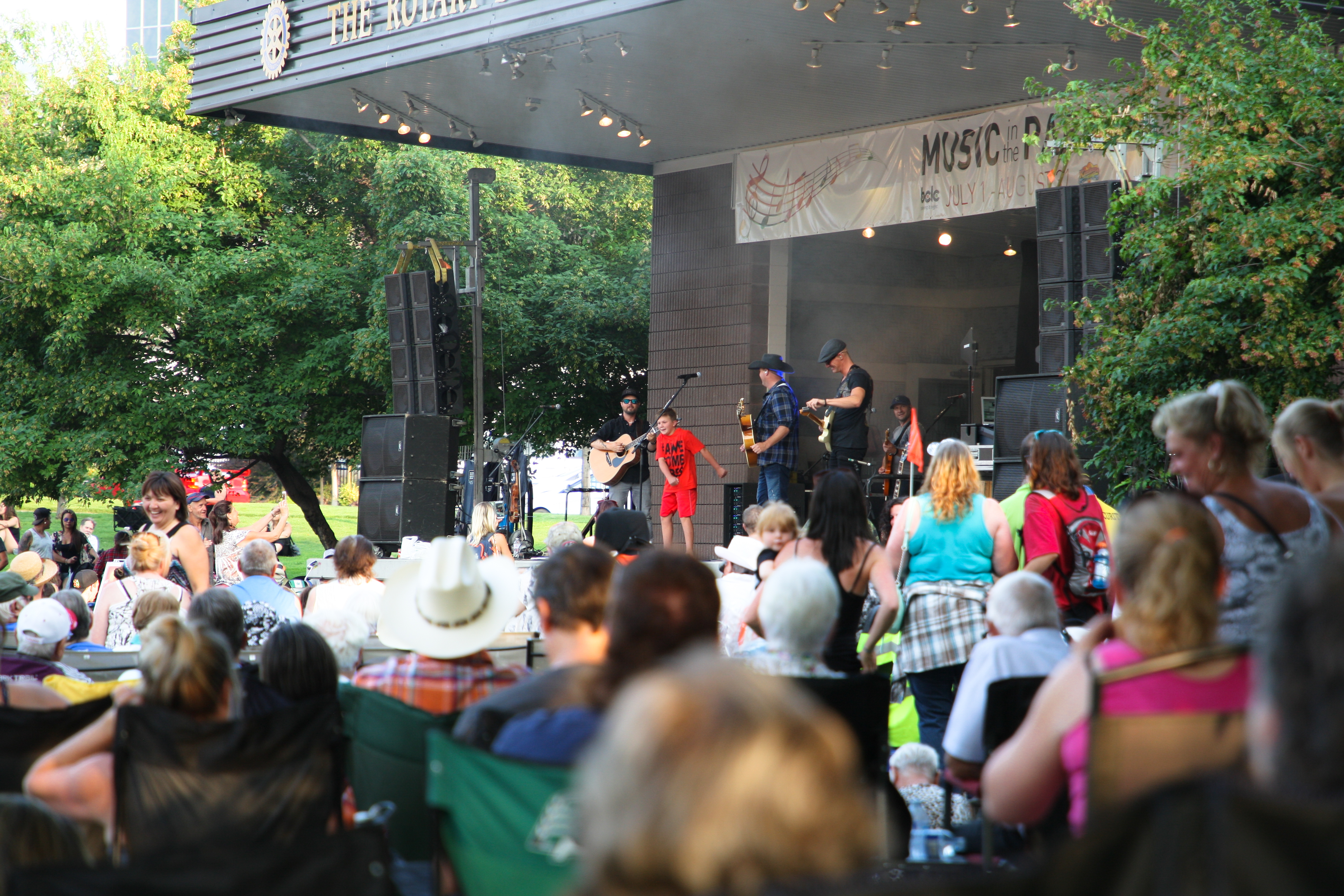 Music in the Park at Riverside Park. (Photo:Candace Lewis)